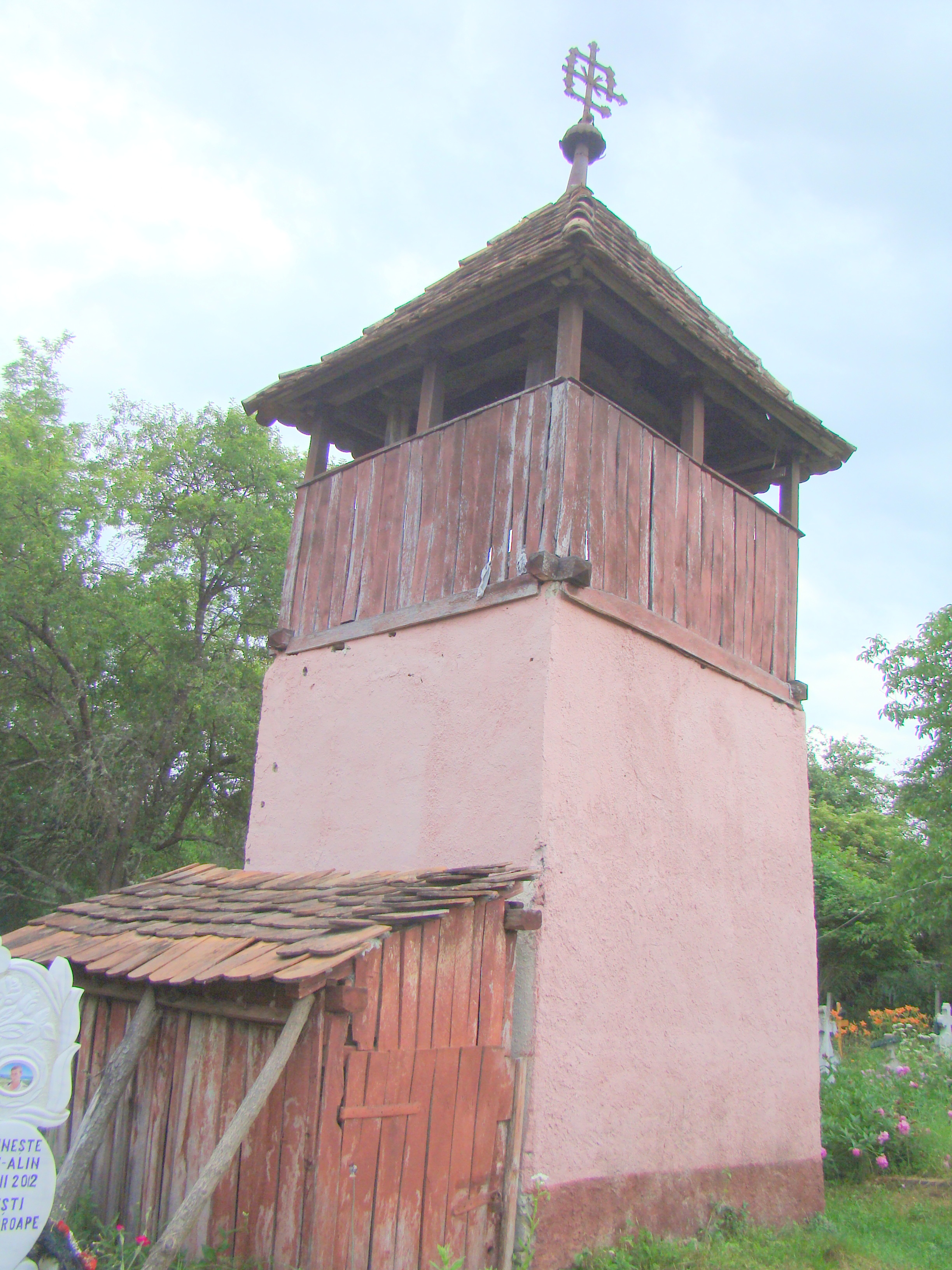 Wooden church in Cobor, Brașov county, Romania